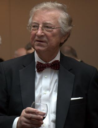 Andrew Targowski, 2011